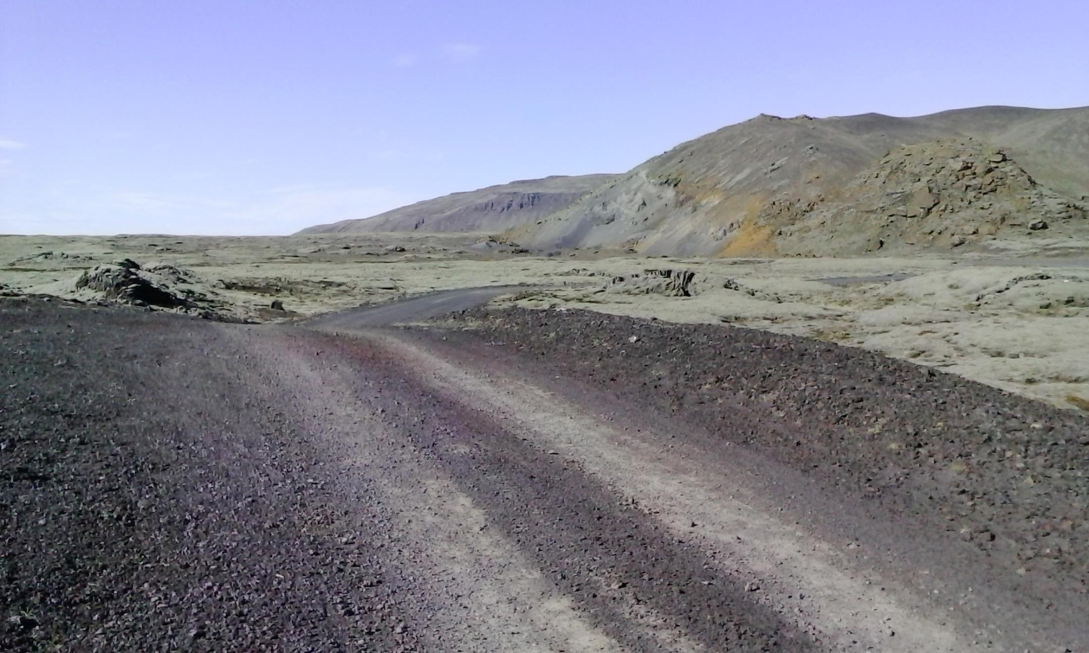 GeitafellLitla Sandfell, Bláfjöll, Iceland